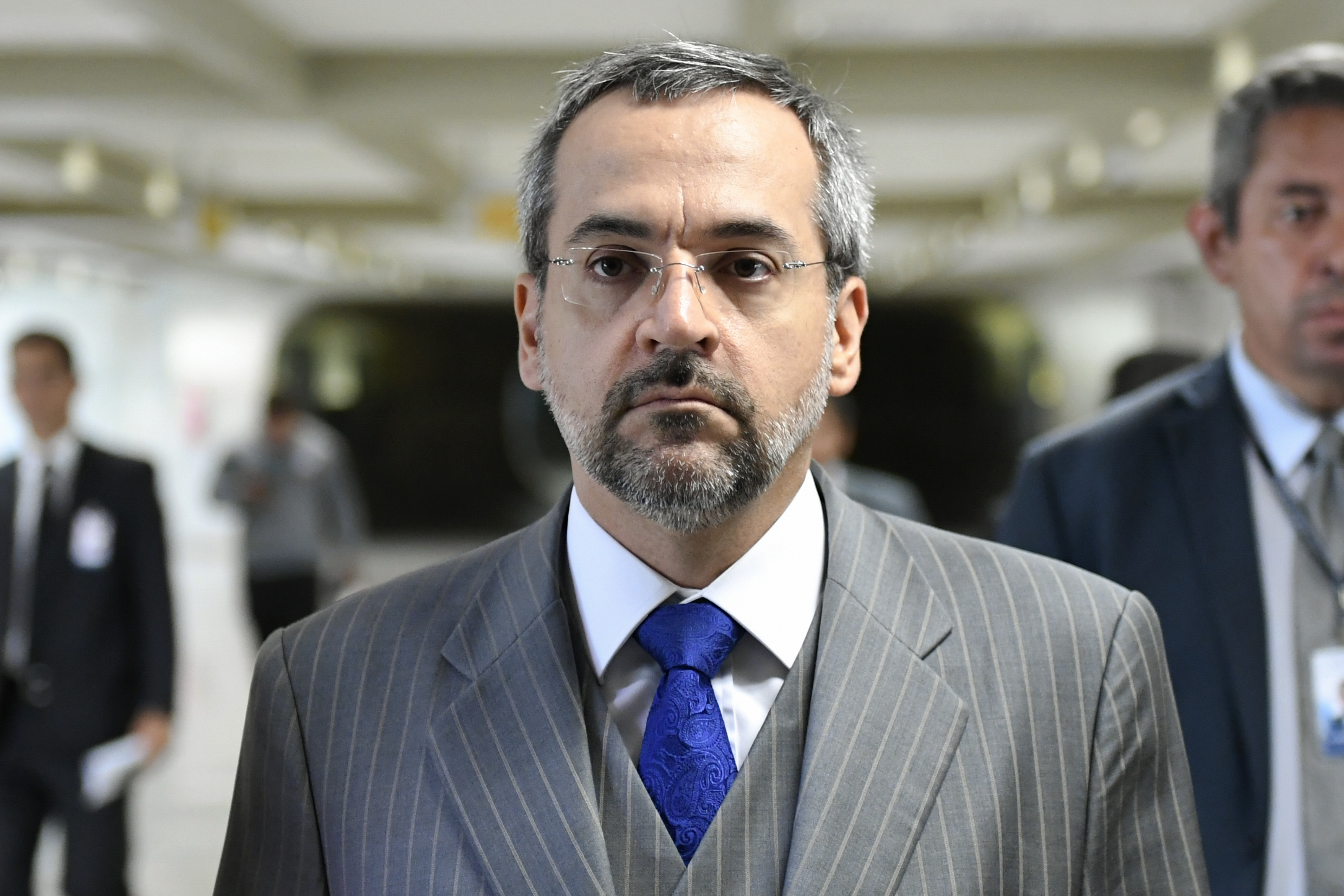 Ministro da Educação, Abraham Weintraub, chega ao Senado para participar de audiência pública na Comissão de Educação, Cultura e Esporte (CE).